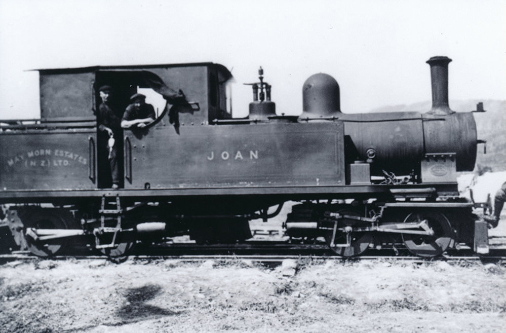 Barclay 0-4-4-0T steam locomotive 'Joan'; owned by May Morn Estates (N.Z.) Ltd.